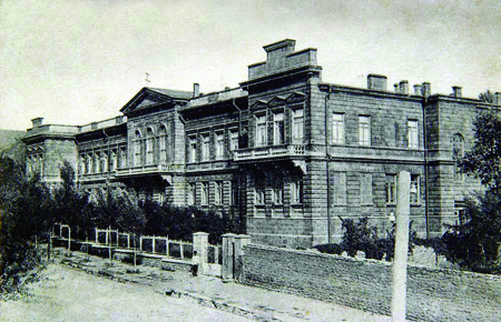 University building on Astafian, Yerevan in 1921.